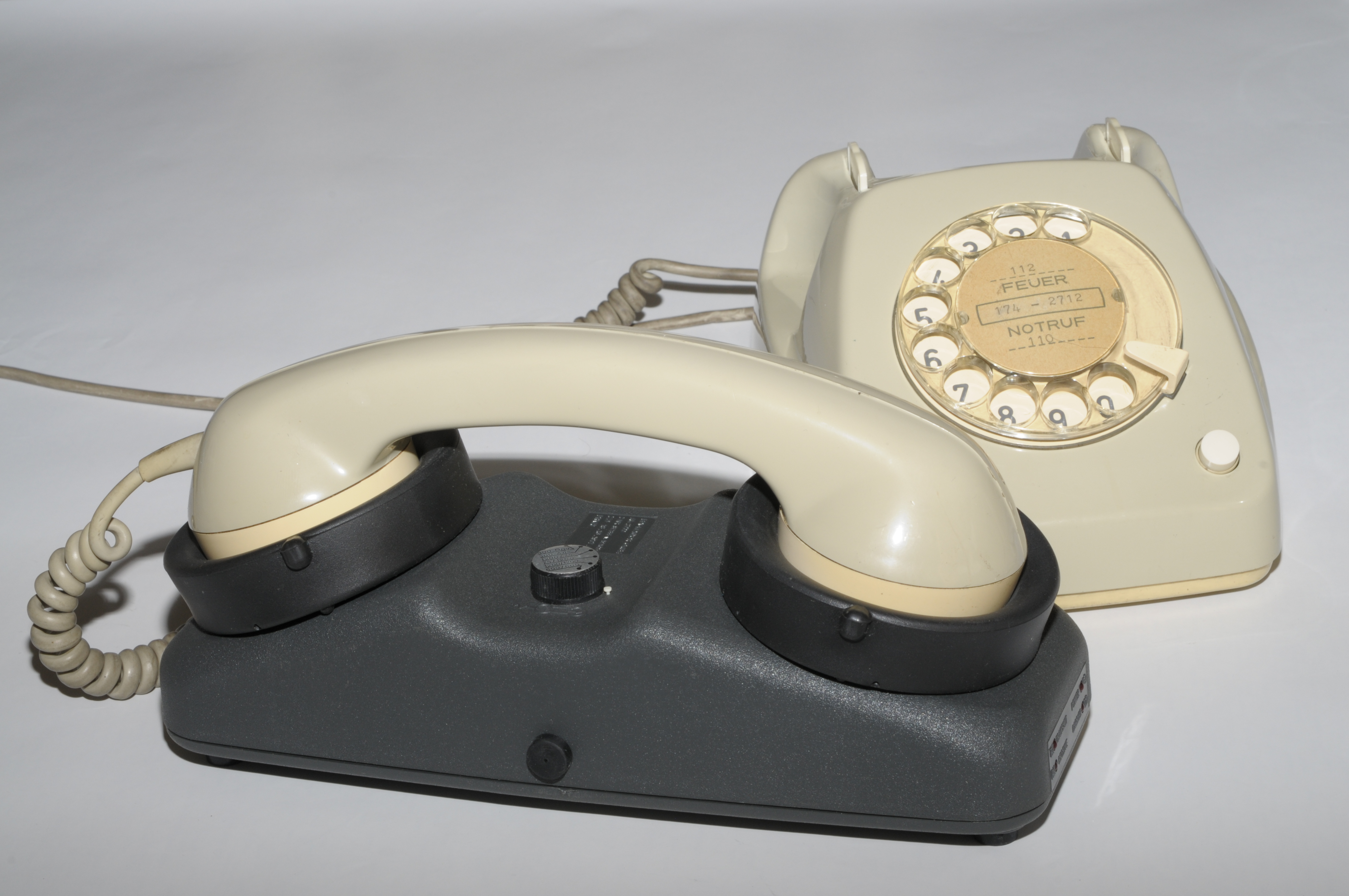 Acoustic coupler AK 2000 EDV-KONTOR GmbH, second half of the 1980s, with severals modes and speeds up to 1200/1200, connected with a tabletop telephone of Deutsche Bundespost